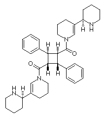 Structure of (-)-Santiaguine